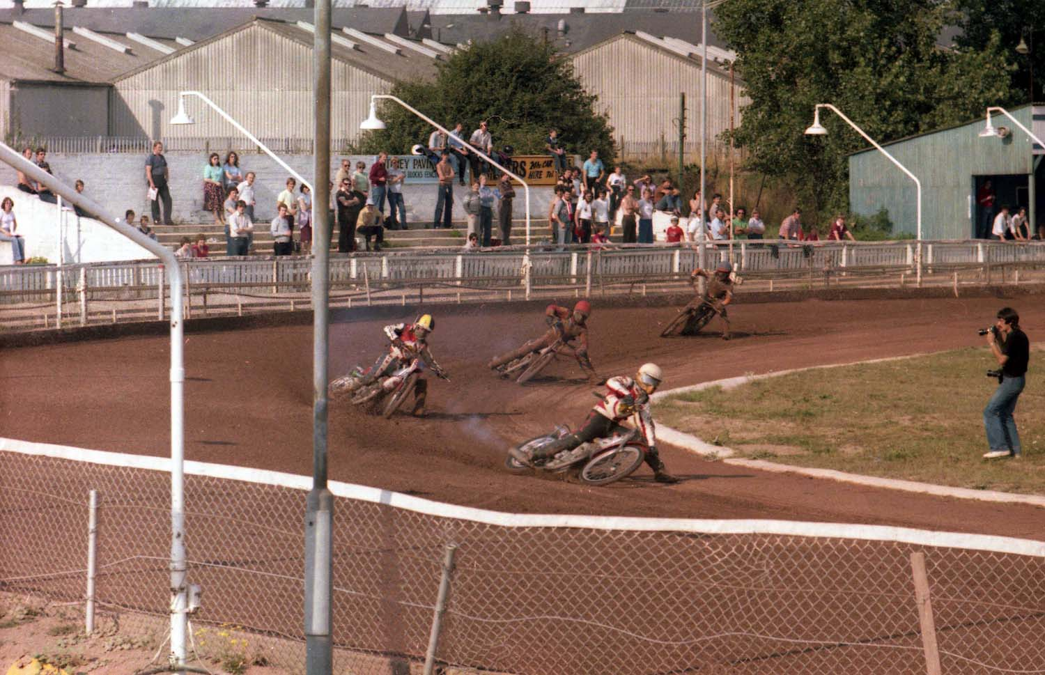 Speedway at Oxford Stadium, near to Cowley, Oxfordshire, Great Britain.